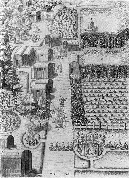 Algonquian village on the Pamlico River estuary showing Native structures, agriculture, and spiritual life.